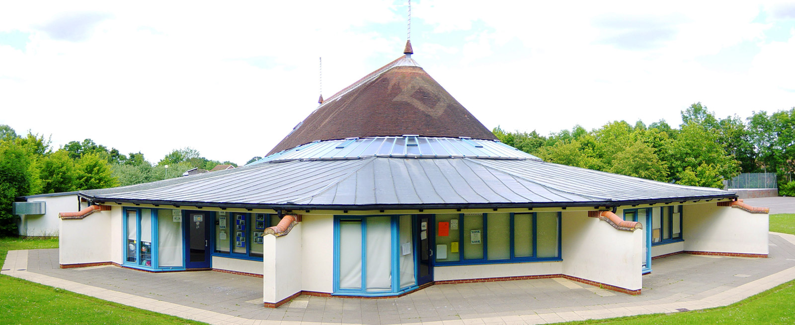 Four Lanes Community Junior School, Chineham, Basingstoke, Hampshire, United Kingdom